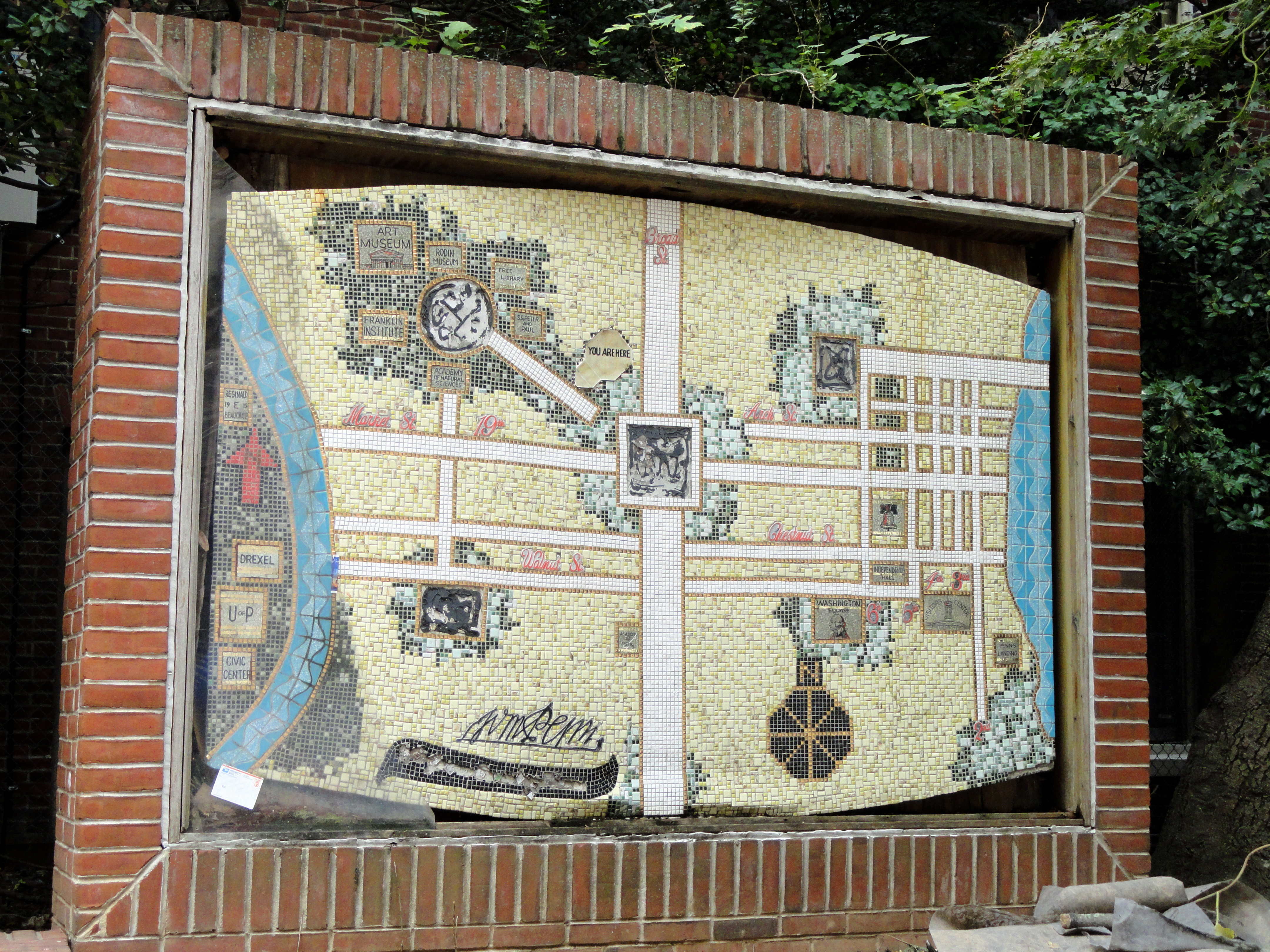 Tile map (in some disrepair), Philadelphia, Pennsylvania, USA.